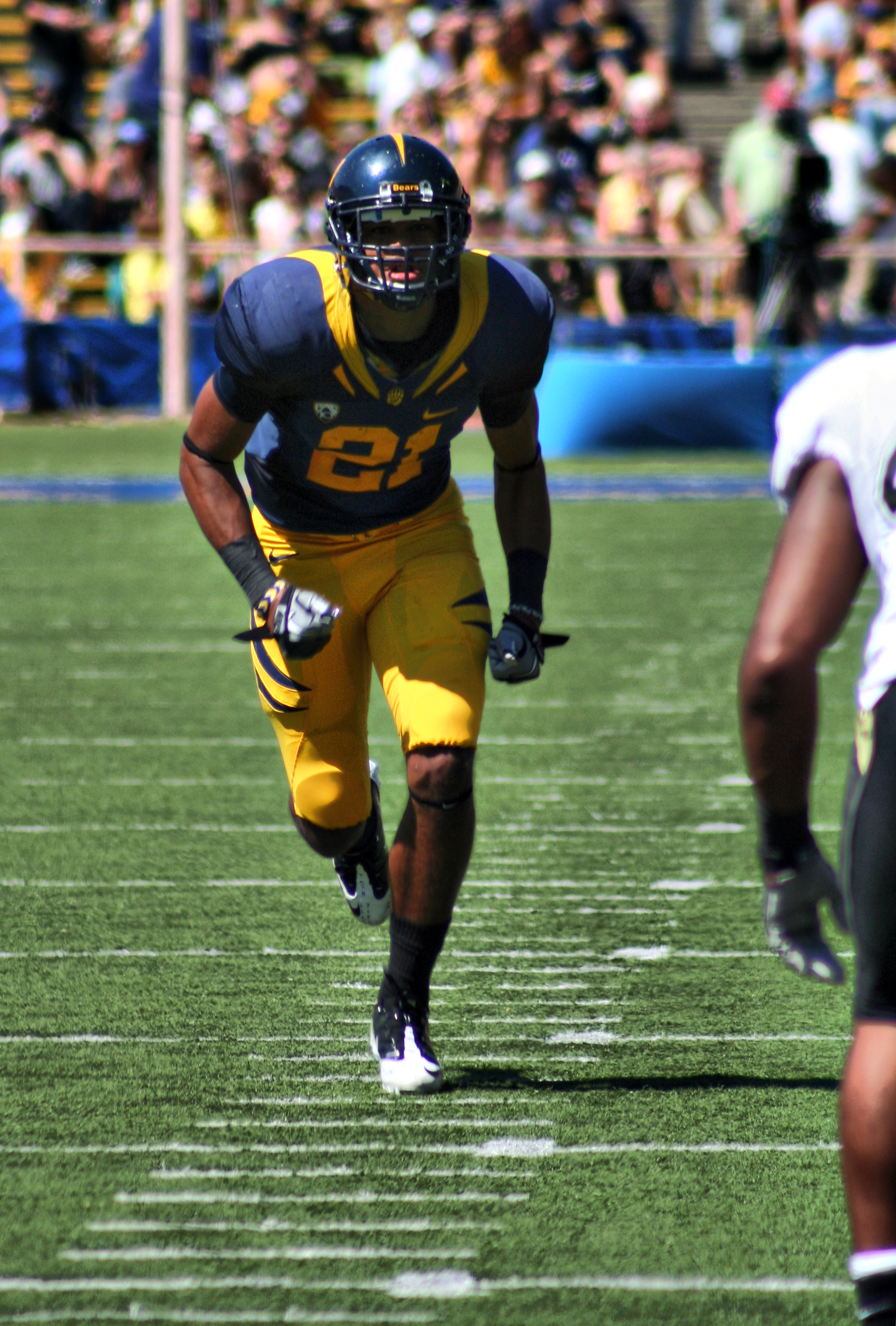 Wide receiver Keenan Allen of Cal vs Colorado, September 11, 2010.